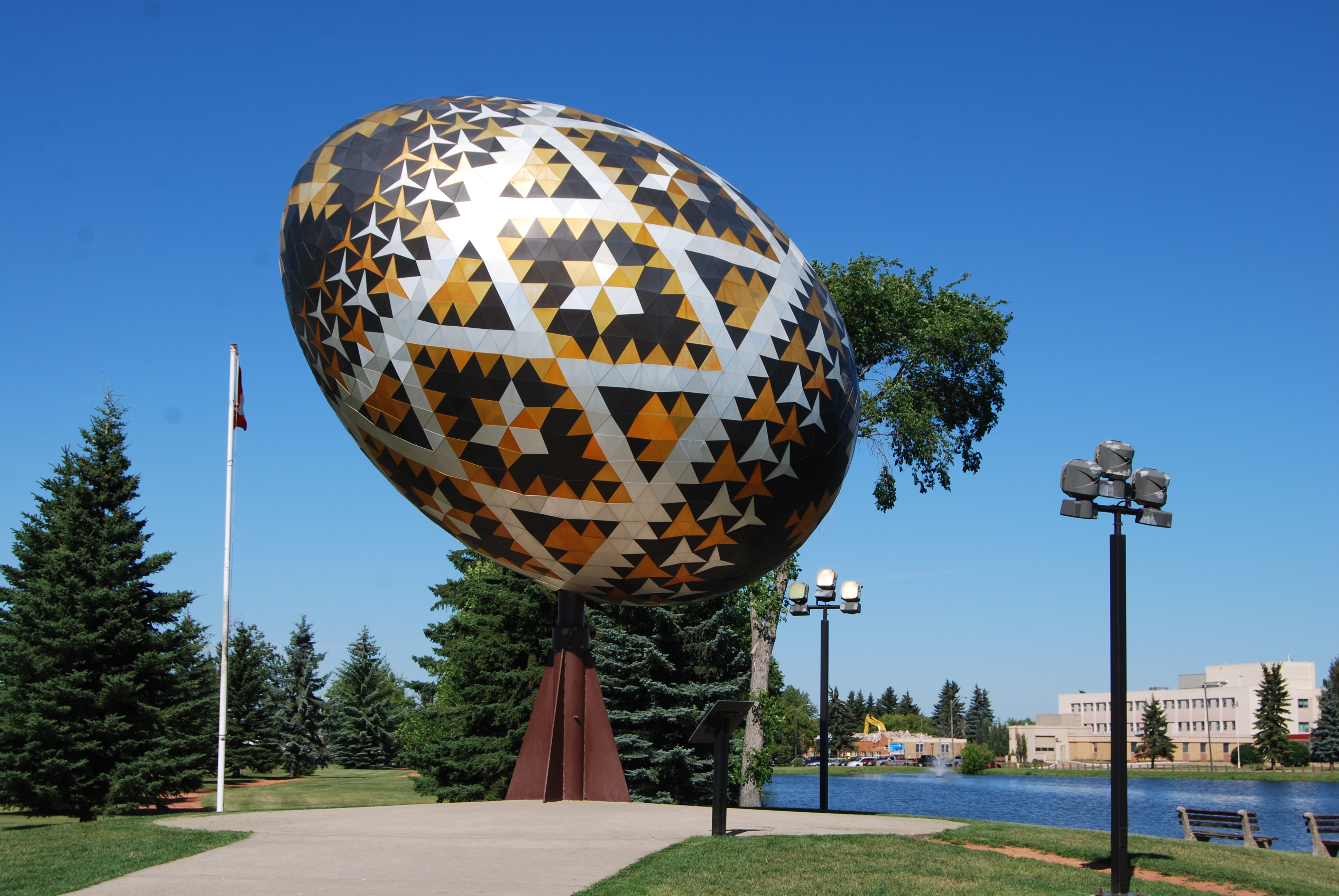 The Vegreville Egg, a giant egg commemorating the Mountie's 100th anniversary, located at Vegreville. I, Myke Waddy took this photo on August 15th 2008 in vegreville Alberta.